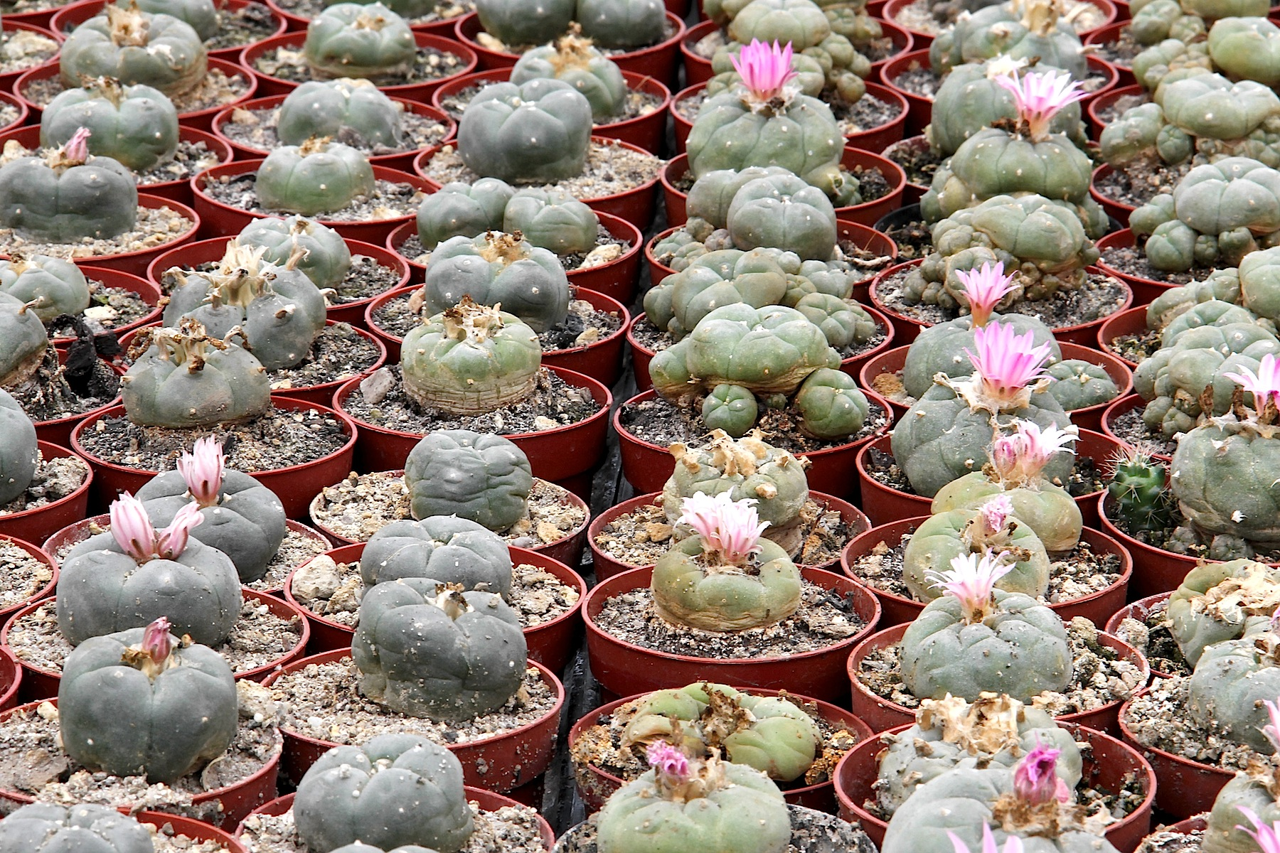 Group: Lophophora williamsii